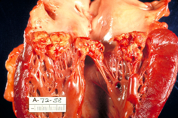 ID#: 851 Description: Gross pathology of subacute bacterial endocarditis involving mitral valve. Left ventricle of heart has been opened to show mitral valve fibrin vegetations due to infection with Haemophilus parainfluenzae. Autopsy. Content Providers(s): CDC/Dr. Edwin P. Ewing, Jr. Creation Date: 1972 Copyright Restrictions: None - This image is in the public domain and thus free of any copyright restrictions. As a matter of courtesy we request that the content provider be credited and notified in any public or private usage of this image.